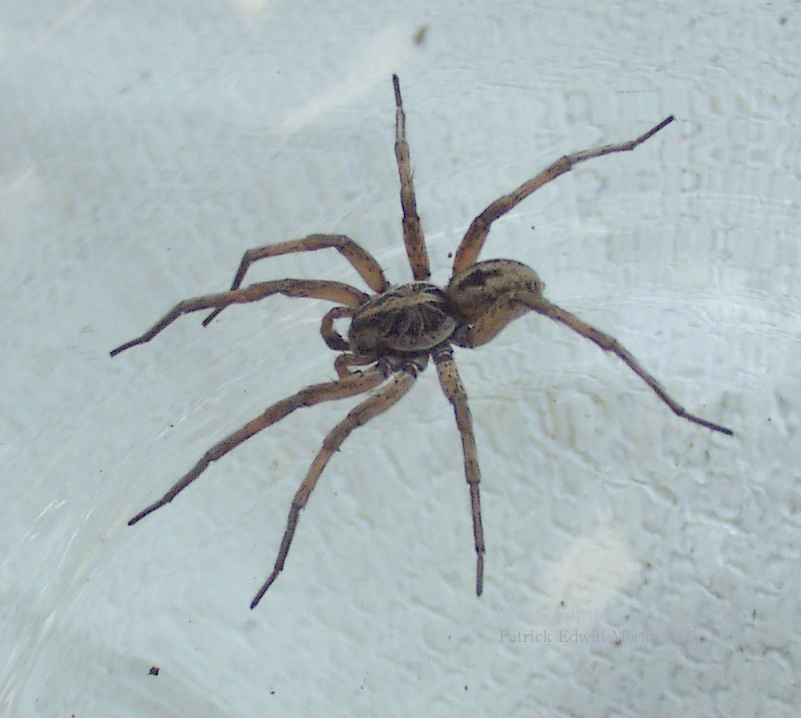 Photographed by Patrick Edwin Moran, 3 October 2005, central North Carolina, USA. Tigrosa helluo (male), a species of wolf spider.